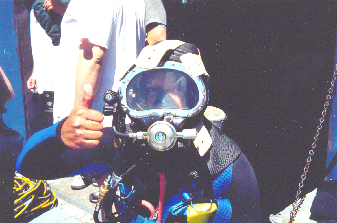 An Engineer-Diver with KB Bandmask